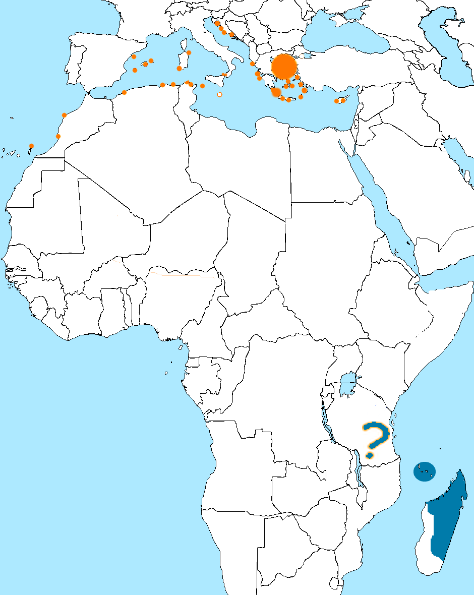 Eleonora's Falcon - Range Map